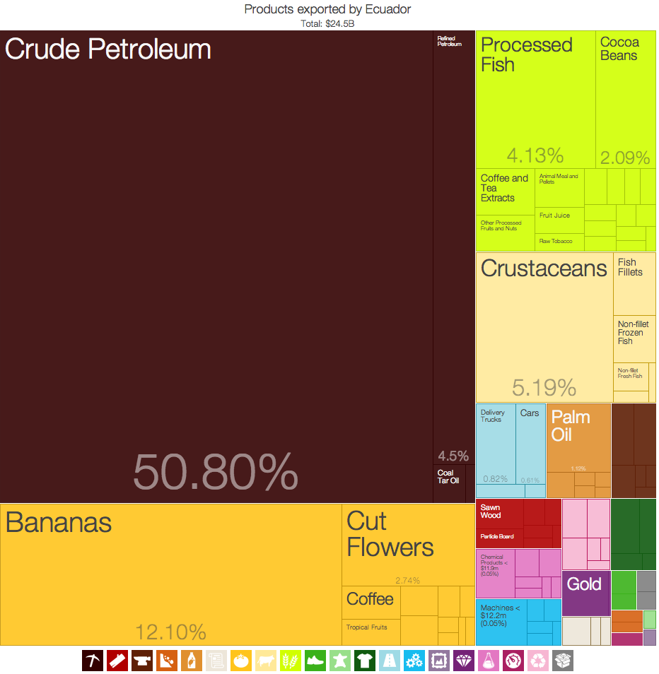 A proportional representation of Ecuador's exports.